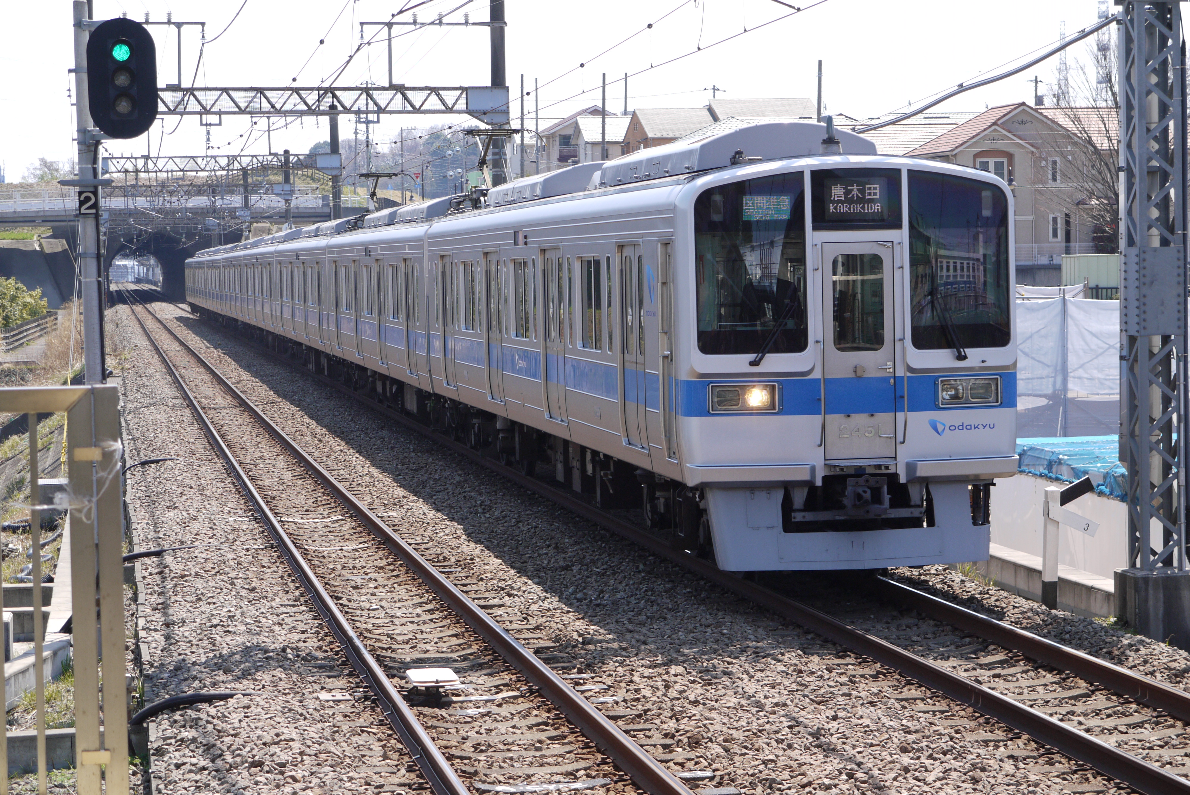 Odakyu 2051x8 with new colour line i.e. imperial blue, taken at Haruhino.